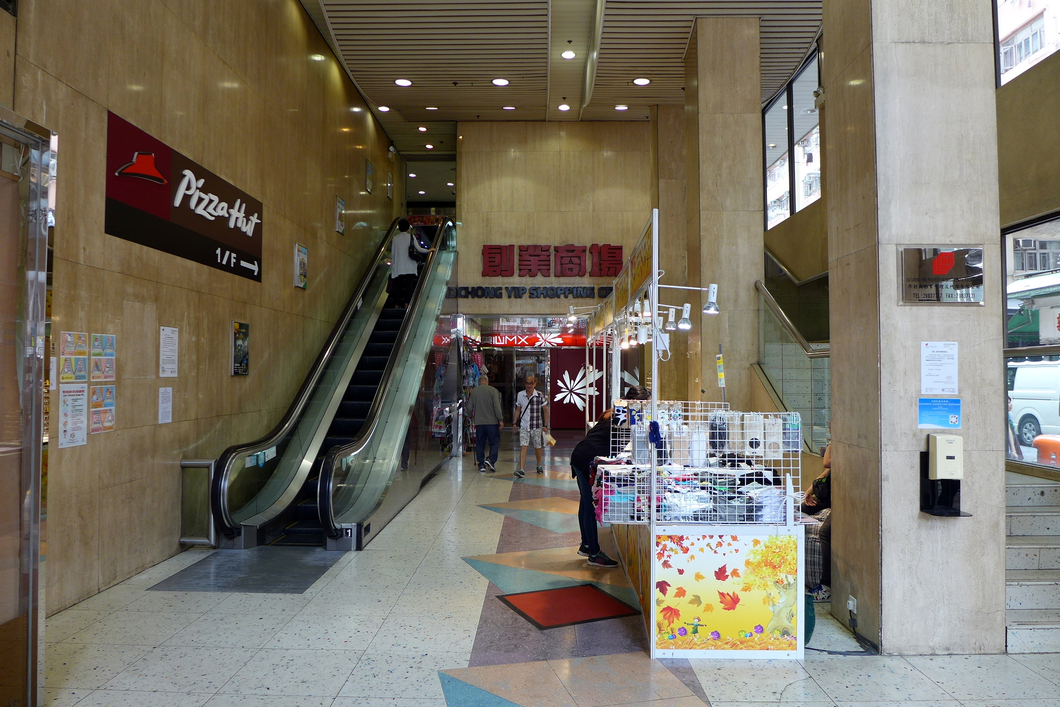 Chong Yip Centre